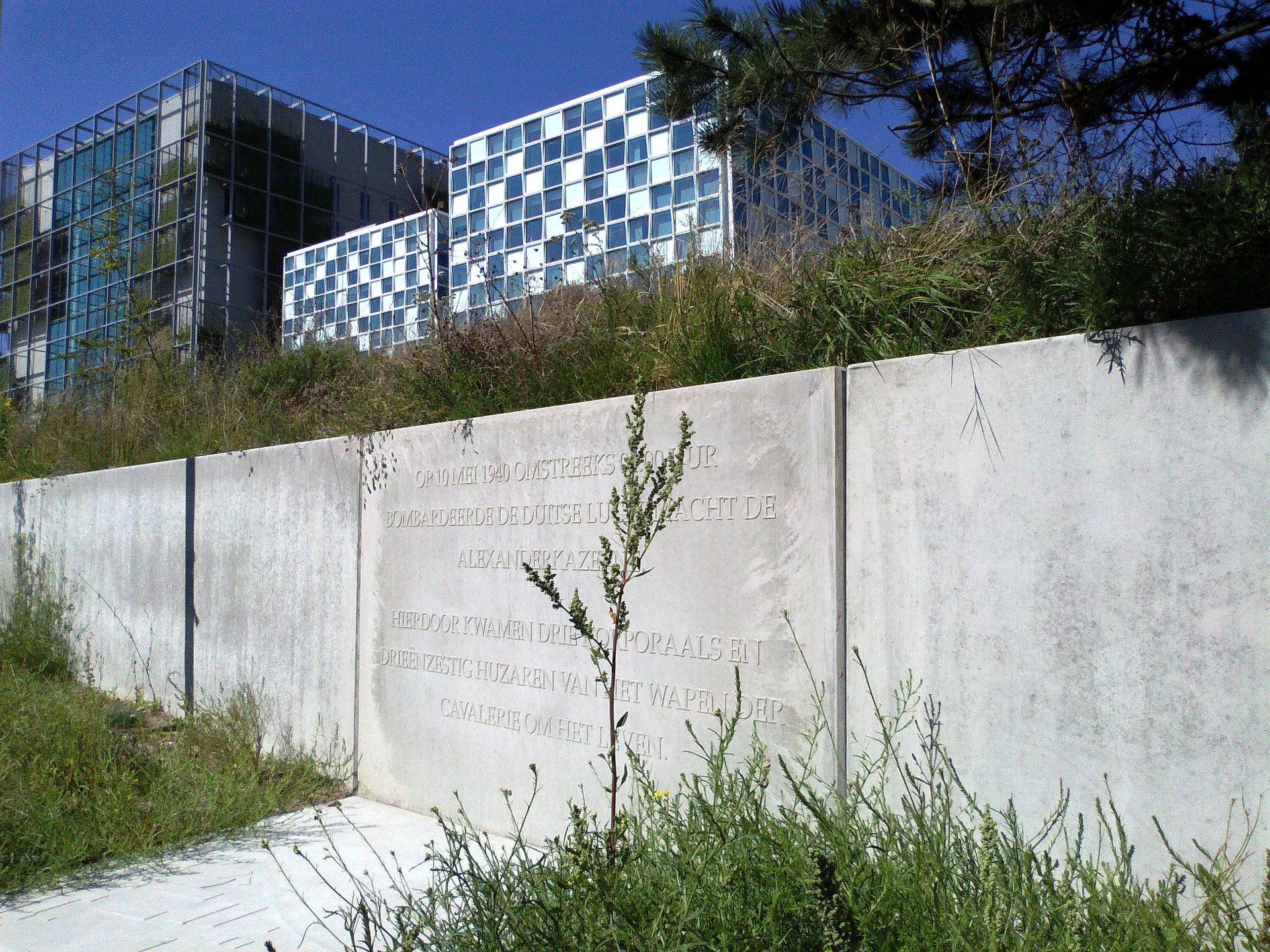 On May 10, 1940 around 04:00 in the morning, the German air force bombed the Prince Alexander Military Barracks in The Hague, the Netherlands. As a result, 66 hussars of the Cavalry where killed. In addition to the dead over 150 soldiers and officers where injured. Many where severely mutilated, suffering from burns, and some having lost their arm(s) and/or leg(s). The soldiers where mostly reservists, mobilized on account of the imminent German military threat. Also more than 100 horses beloning to the cavalry where killed as a result of the bombardment. Many of them where severly injured and had to be killed by veterinarians. It was reported that the sound of their screams from under the rubbles, lasting for hours, contributed to the overall horror of the survivors.